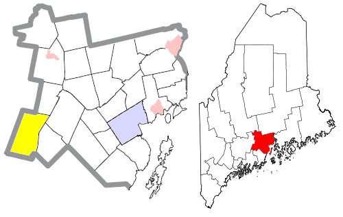 Map of the divisions of Waldo County, Maine, United States, with the town of Palermo highlighted in yellow. The city of Belfast is light blue; other towns are white; and pink areas are census-designated places within towns.